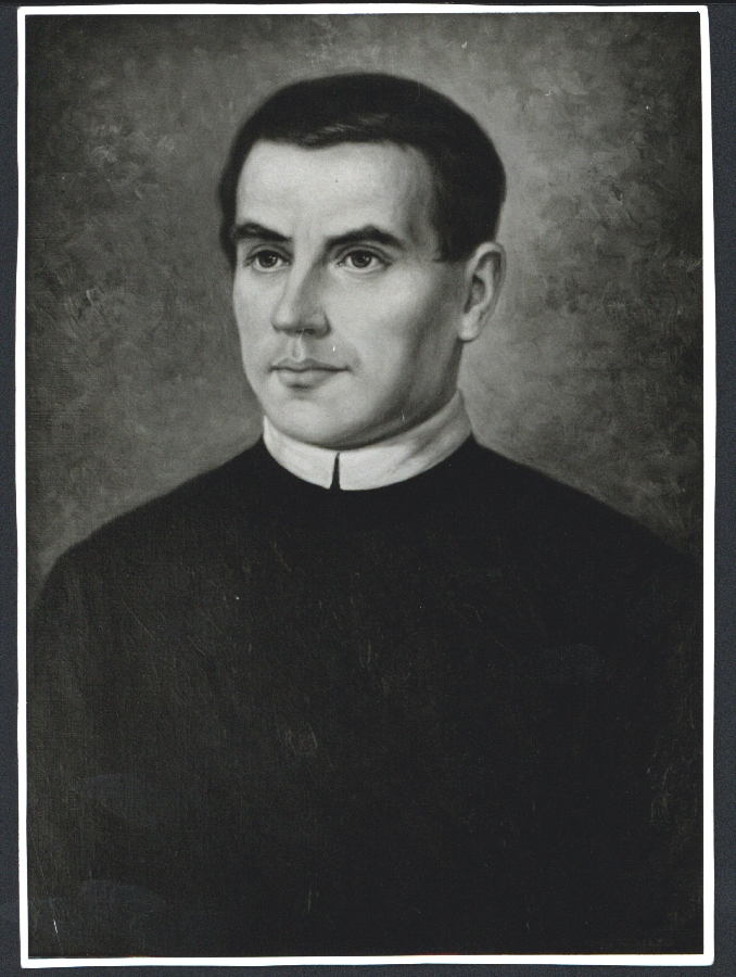 Peter Friedhofen